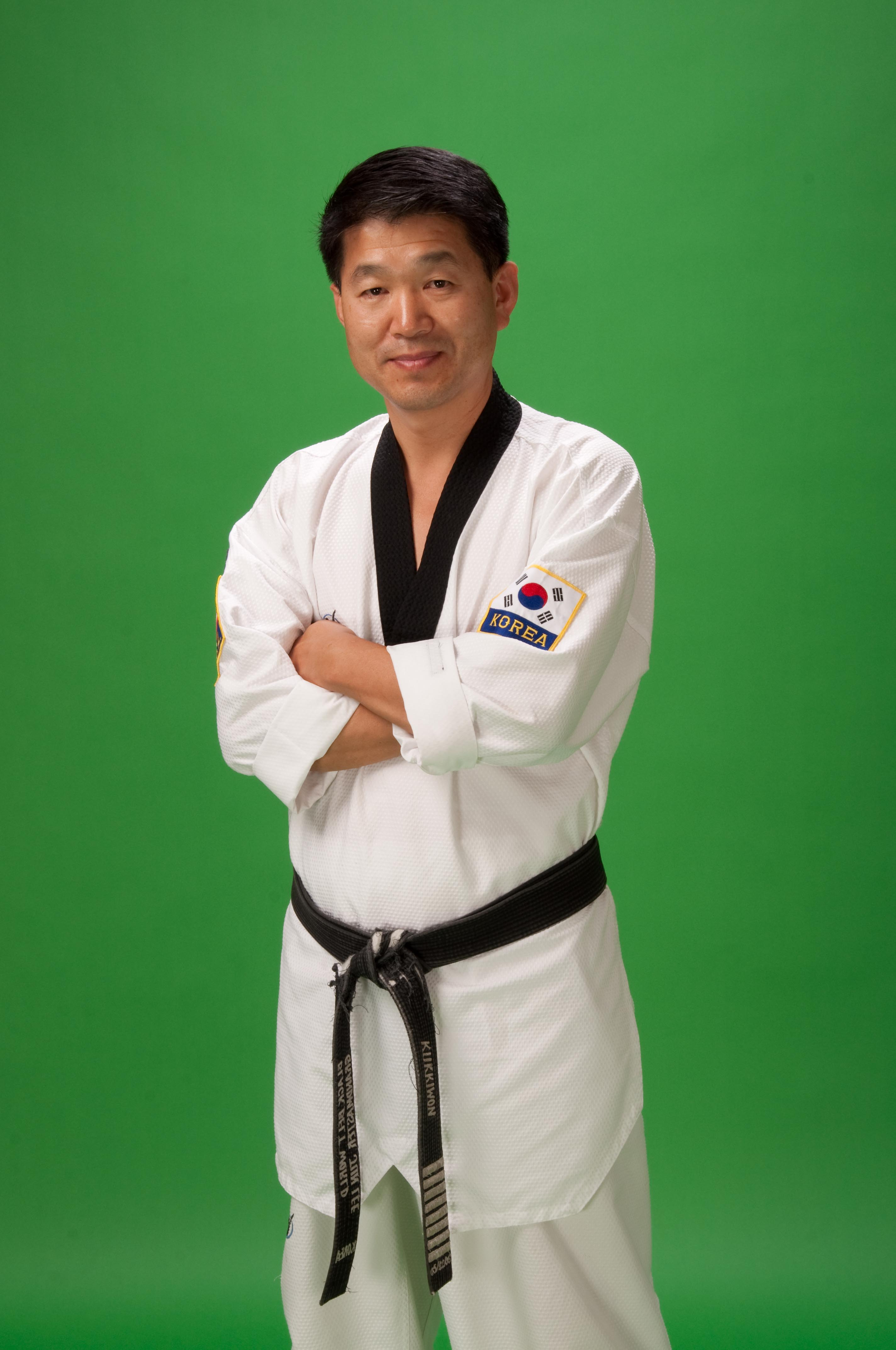 Grandmaster Jun Lee in Taekwondo Dobok